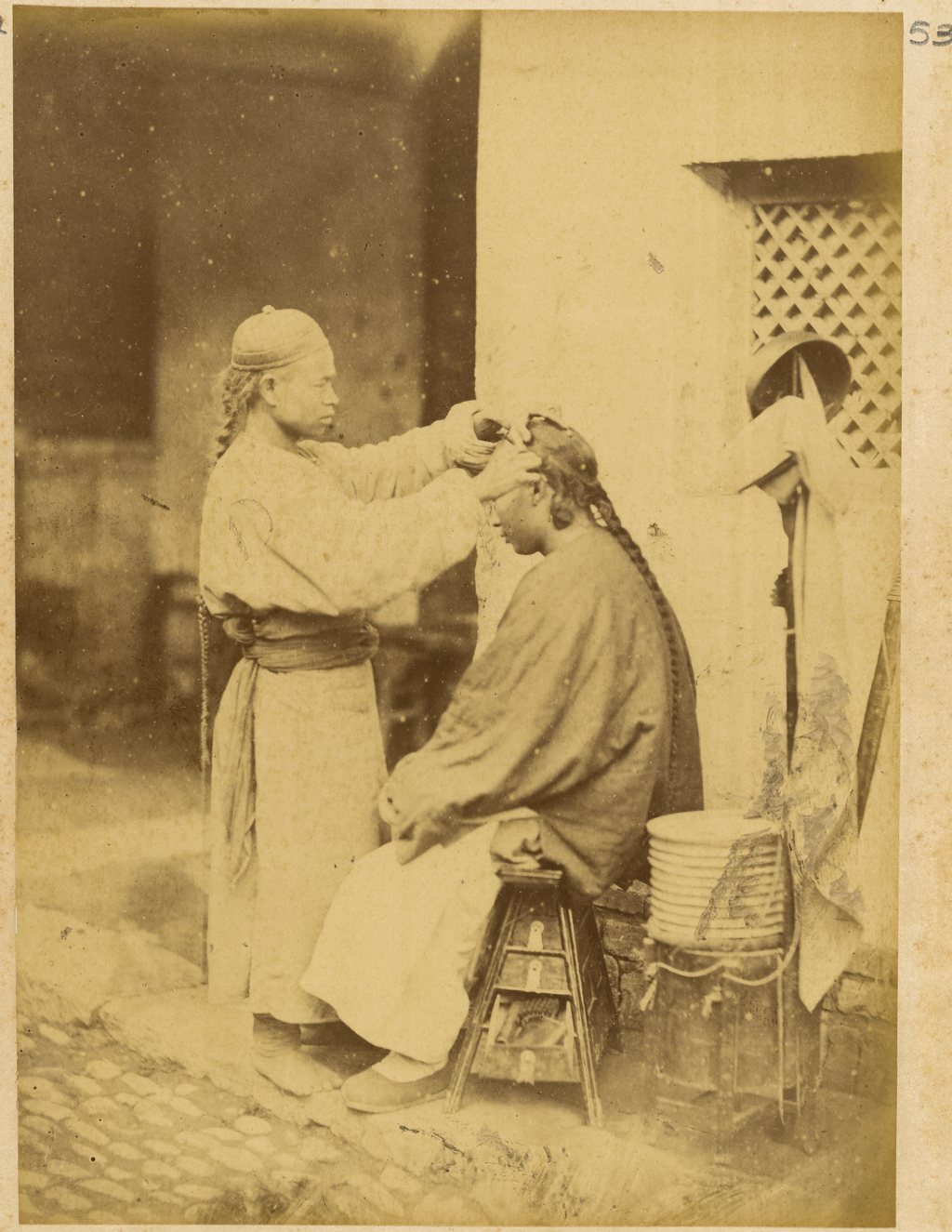 In 1874-75, the Russian government sent a research and trading mission to China to seek out new overland routes to the Chinese market, report on prospects for increased commerce and locations for consulates and factories, and gather information about the Dungan Revolt then raging in parts of western China. Led by Lieutenant Colonel Iulian A. Sosnovskii of the army General Staff, the nine-man mission included a topographer, Captain Matusovskii; a scientific officer, Dr. Pavel Iakovlevich Piasetskii; Chinese and Russian interpreters; three non-commissioned Cossack soldiers; and the mission photographer, Adolf Erazmovich Boiarskii. The mission proceeded from Saint Petersburg to Shanghai via Ulan Bator (Mongolia), Beijing, and Tianjin, and then followed a route along the Yangtze River, along the Great Silk Road through the Hami oasis, to Lake Zaysan, back to Russia. Boiarskii took some 200 photographs, which constitute a unique resource for the study of China in this period. Most of the photographs are included in this album, which later became part of the Thereza Christina Maria Collection assembled by Emperor Pedro II of Brazil and given by him to the National Library of Brazil. Barbers; Chinese; Haircutting; Memory of the World